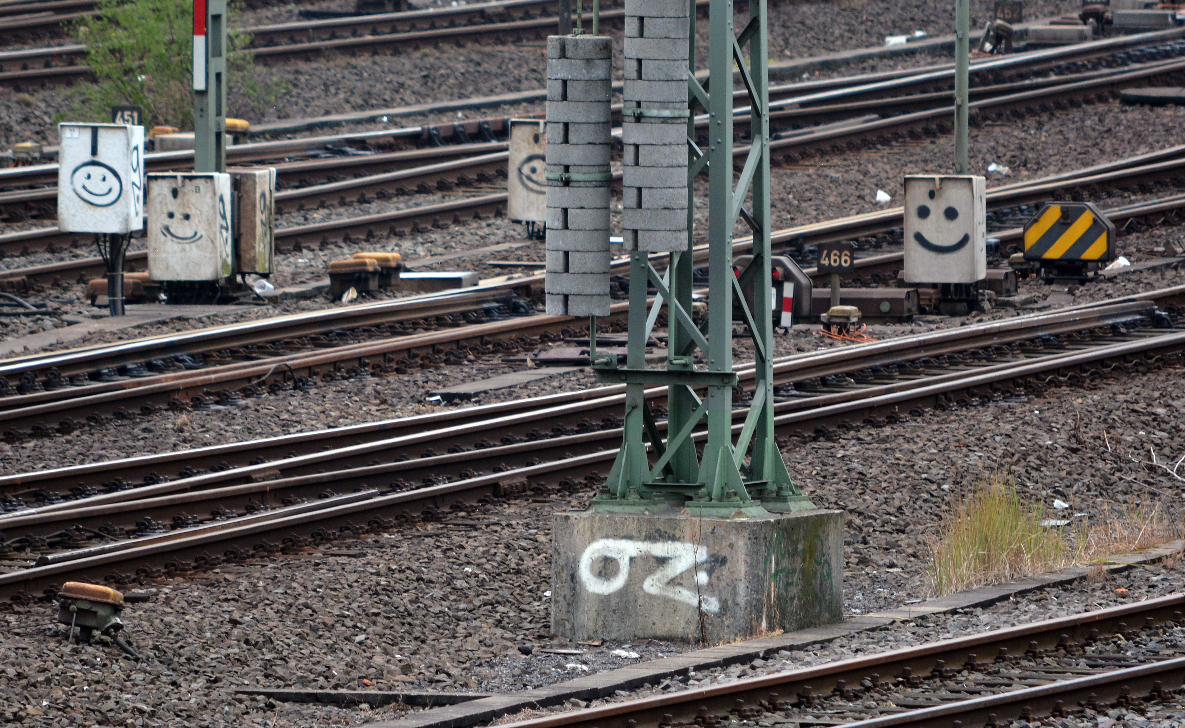 Graffiti of Oz, Hamburg